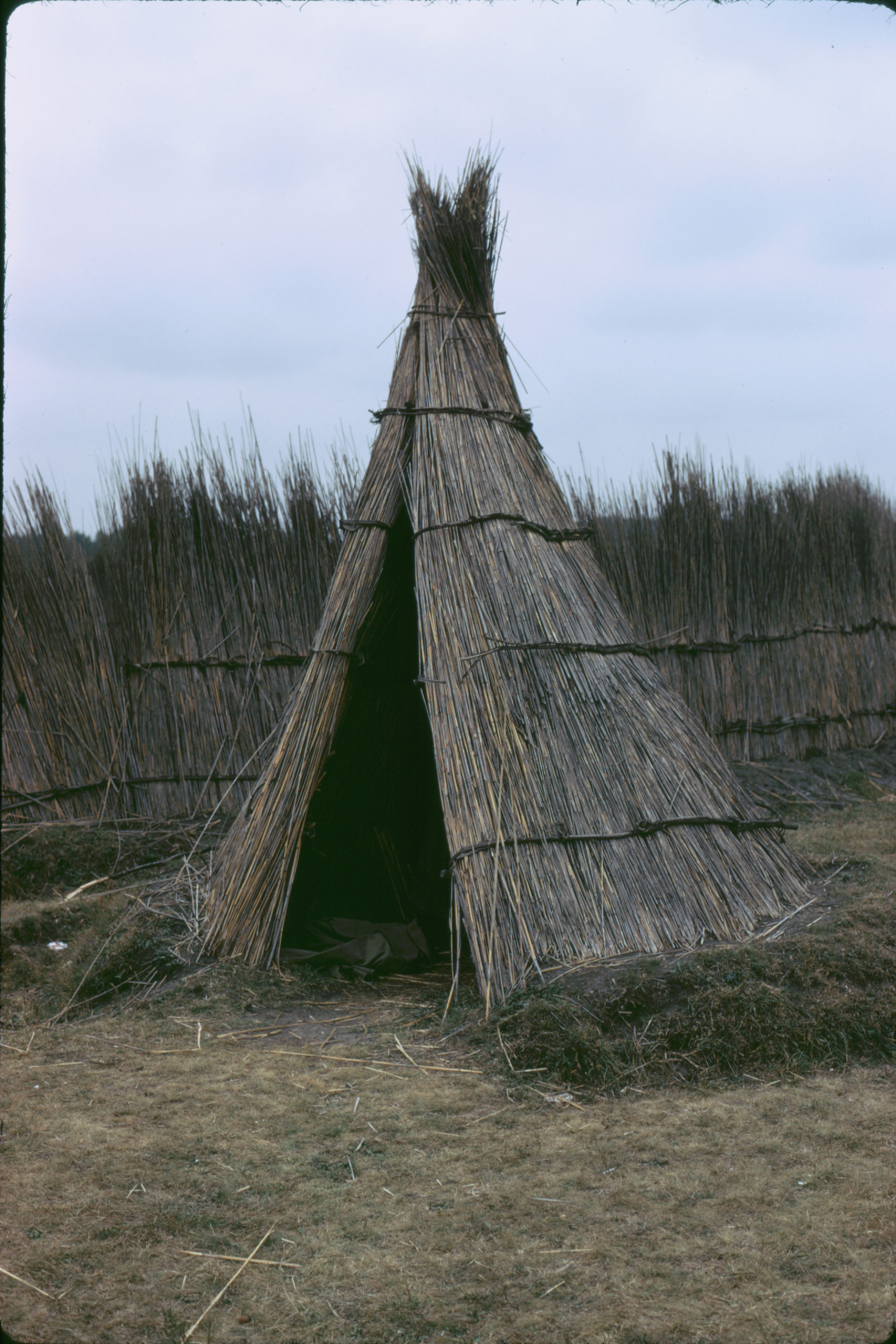 Primitive reed shelter for the shepherd in the Puszta, Hungary.